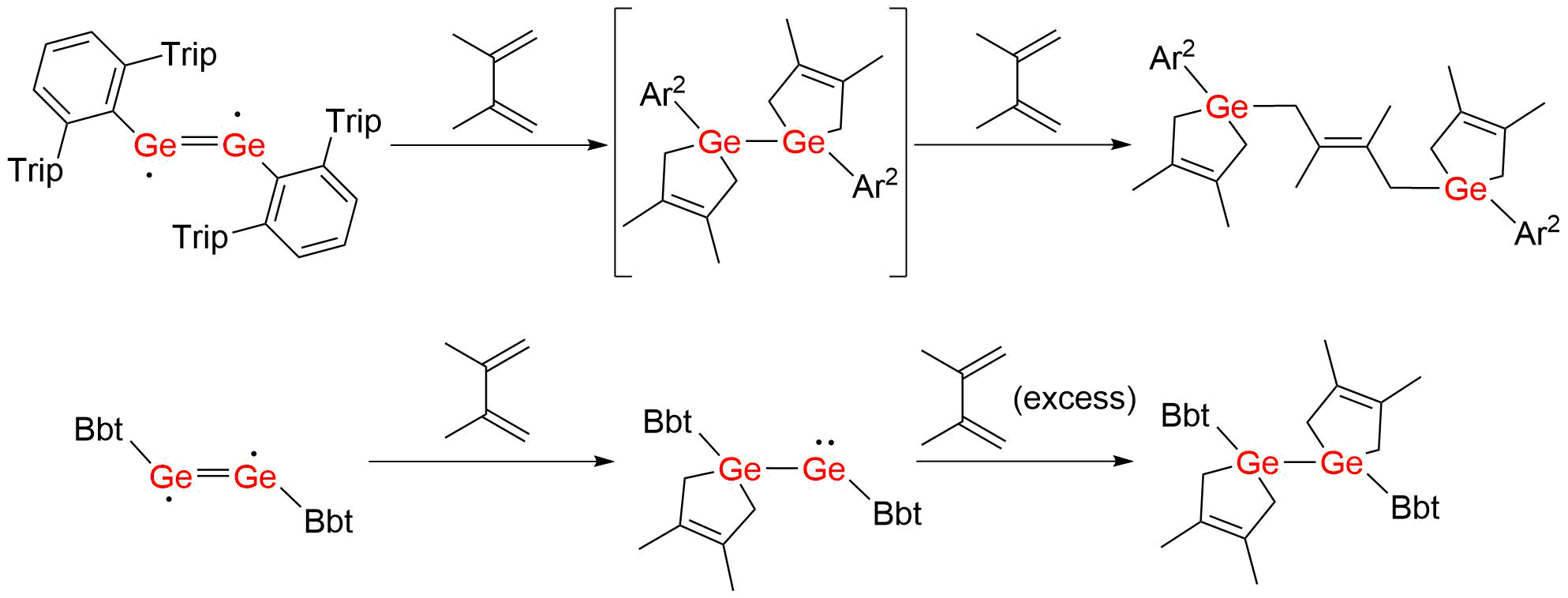 (4+1)cycloaddition of digermyne with 1,3-dimethyl-1,3-butadiene